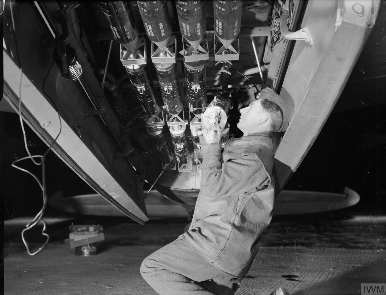 IWM caption : An armourer, Leading Aircraftman H Knight of Cliffe-at-Hoo, Kent, loads 19-lb 4.5-inch Photoflash bombs into a De Havilland PR Mark XVI of No. 140 Squadron RAF at B58/Melsbroek, Belgium, prior to a night photographic-reconnaissance sortie.